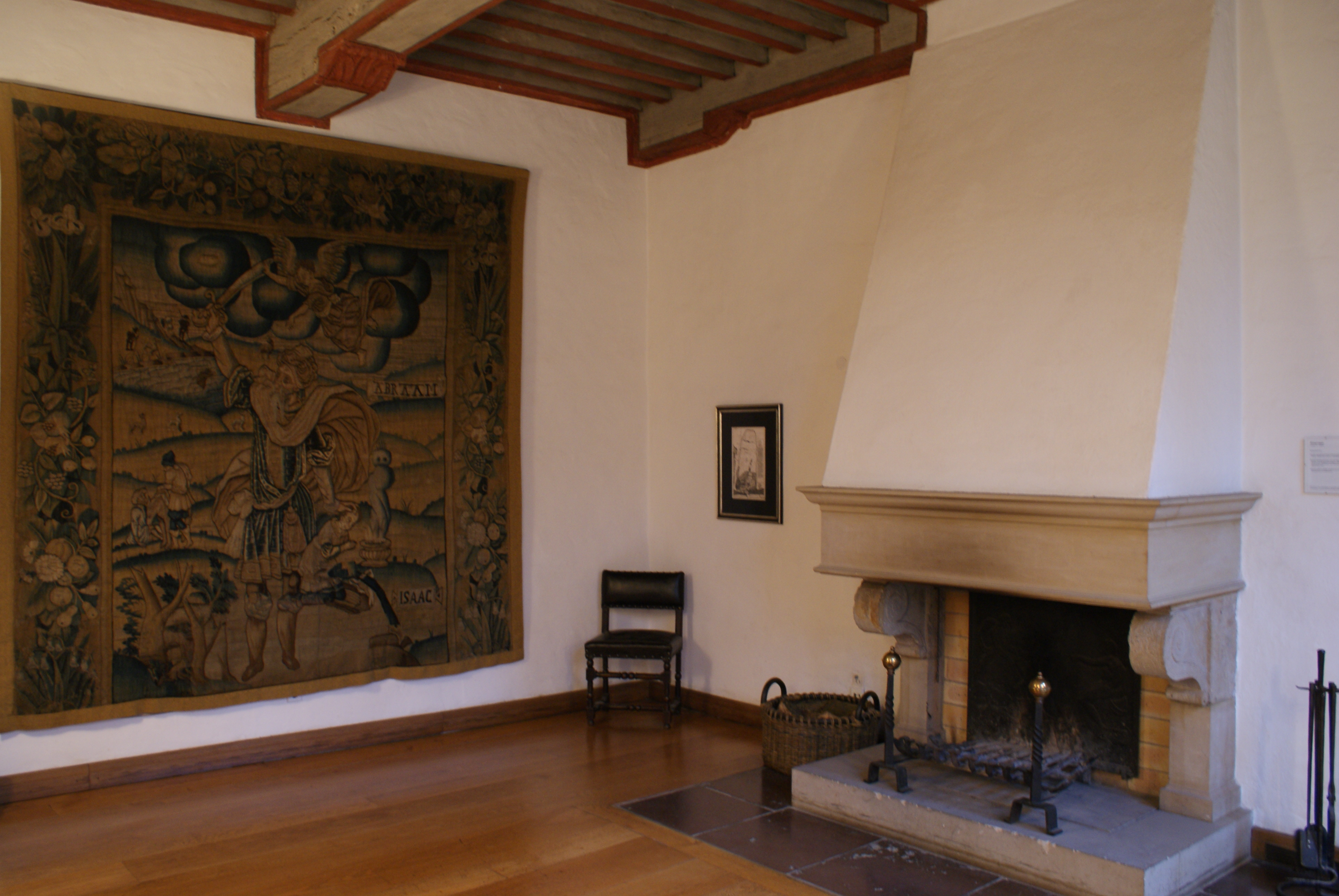 Reinbek Castle, the room with the little fireplace